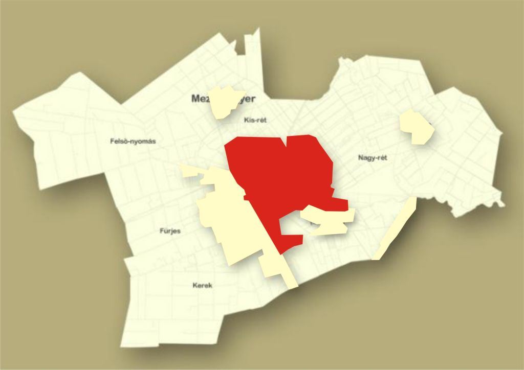 Map of the city center of Békéscsaba